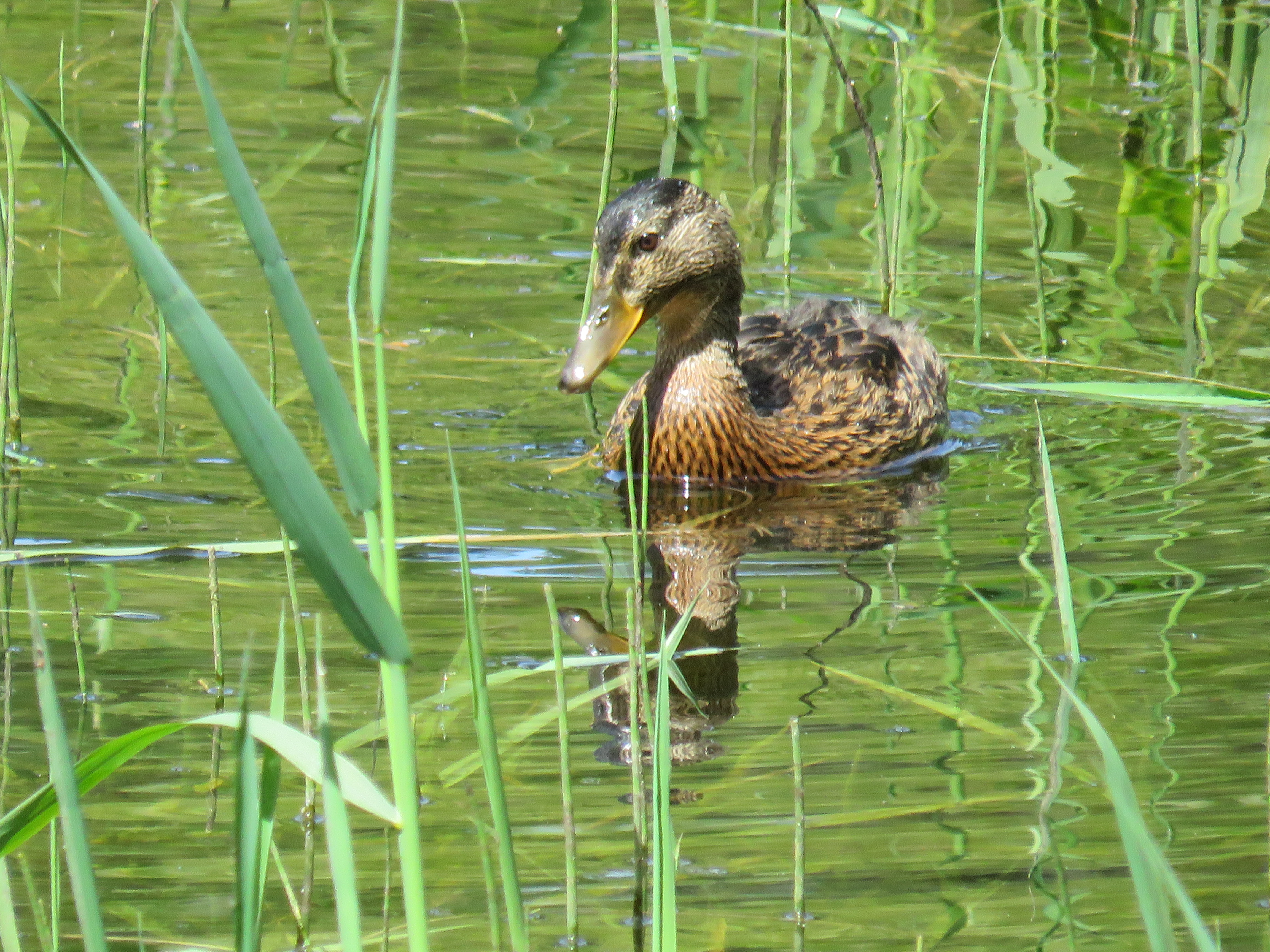 duck, Lake Vyrnwy, Wales from the RSPB Centenary hide